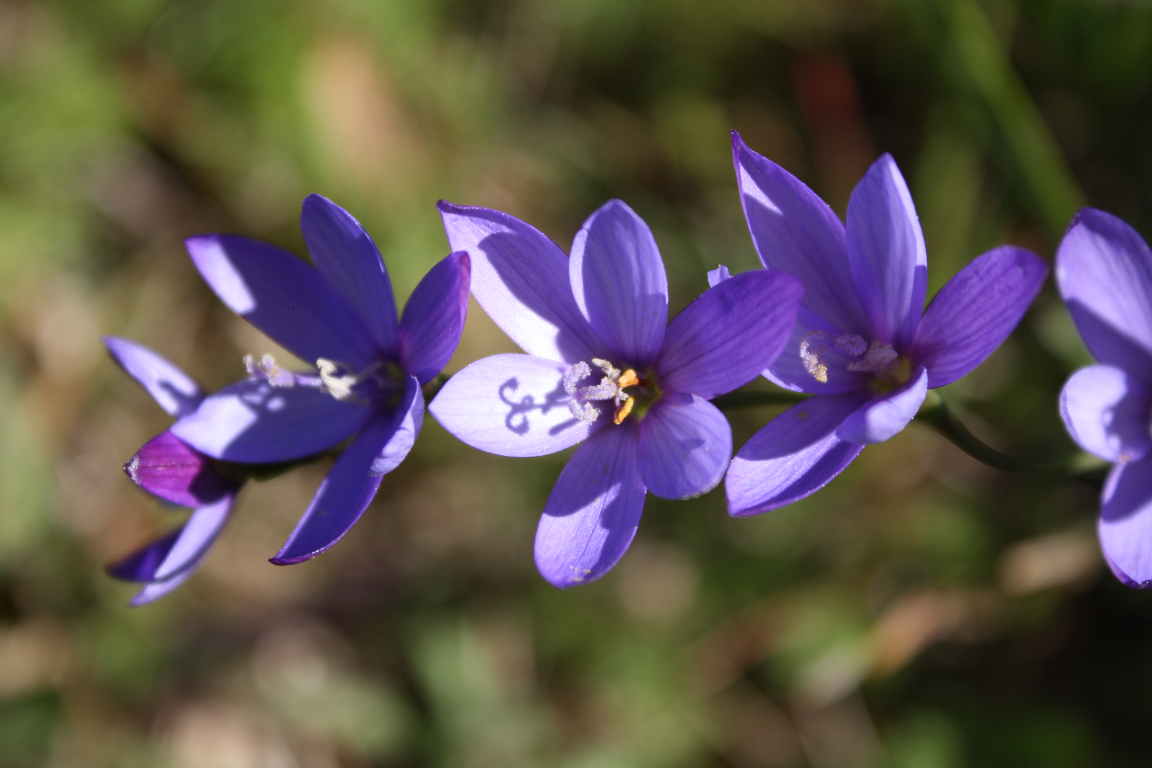 Devil's Peak Cape Town